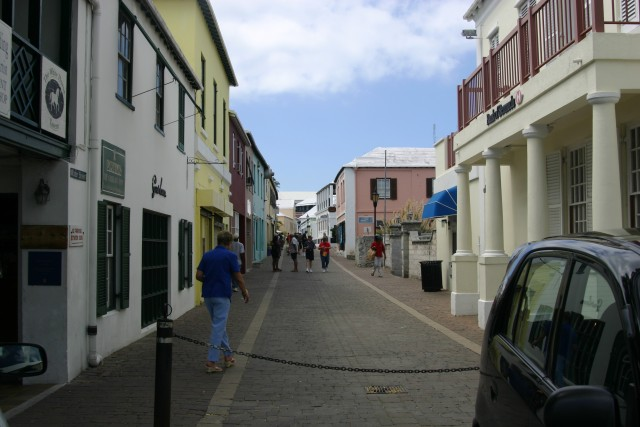 Streets of St. George, Bermuda